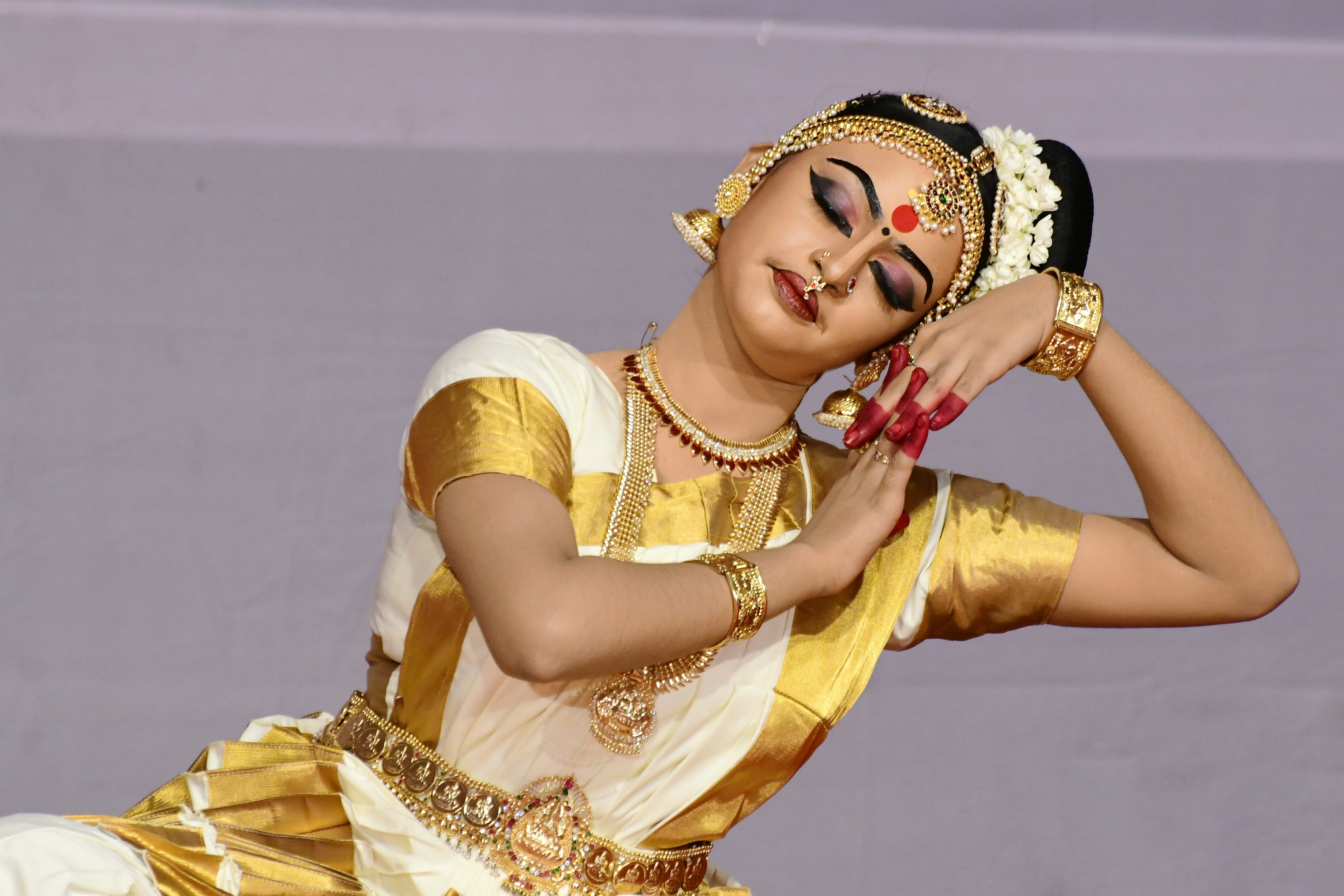 Mohiniyattam is a traditional art form of Kerala